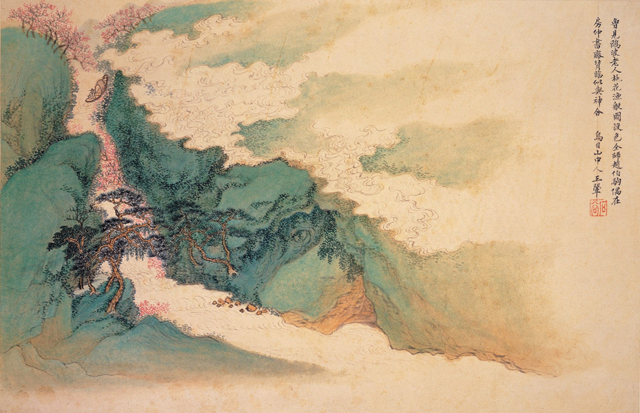 Album leaf, ink and colors on paper, 28.5 x 43 cm